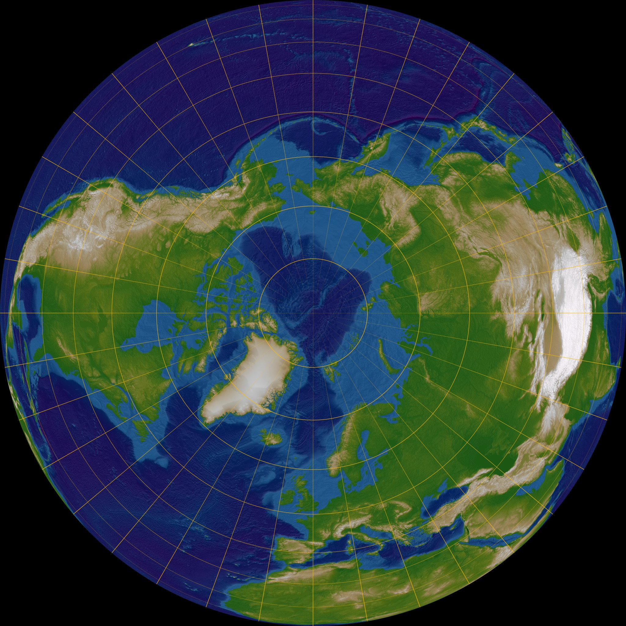 Polar orthographic projection. Map center is at 0° E, 90° N.